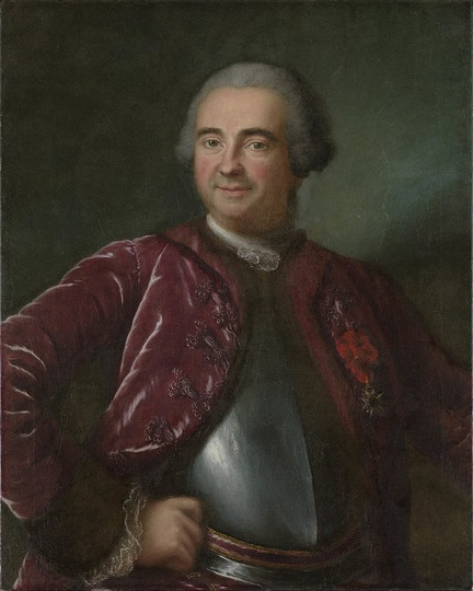 Portrait of Gaspard-Joseph Chaussegros de Léry, fils (1721 – 1797), officer in the infantry of the French army and chief military engineer of New France.